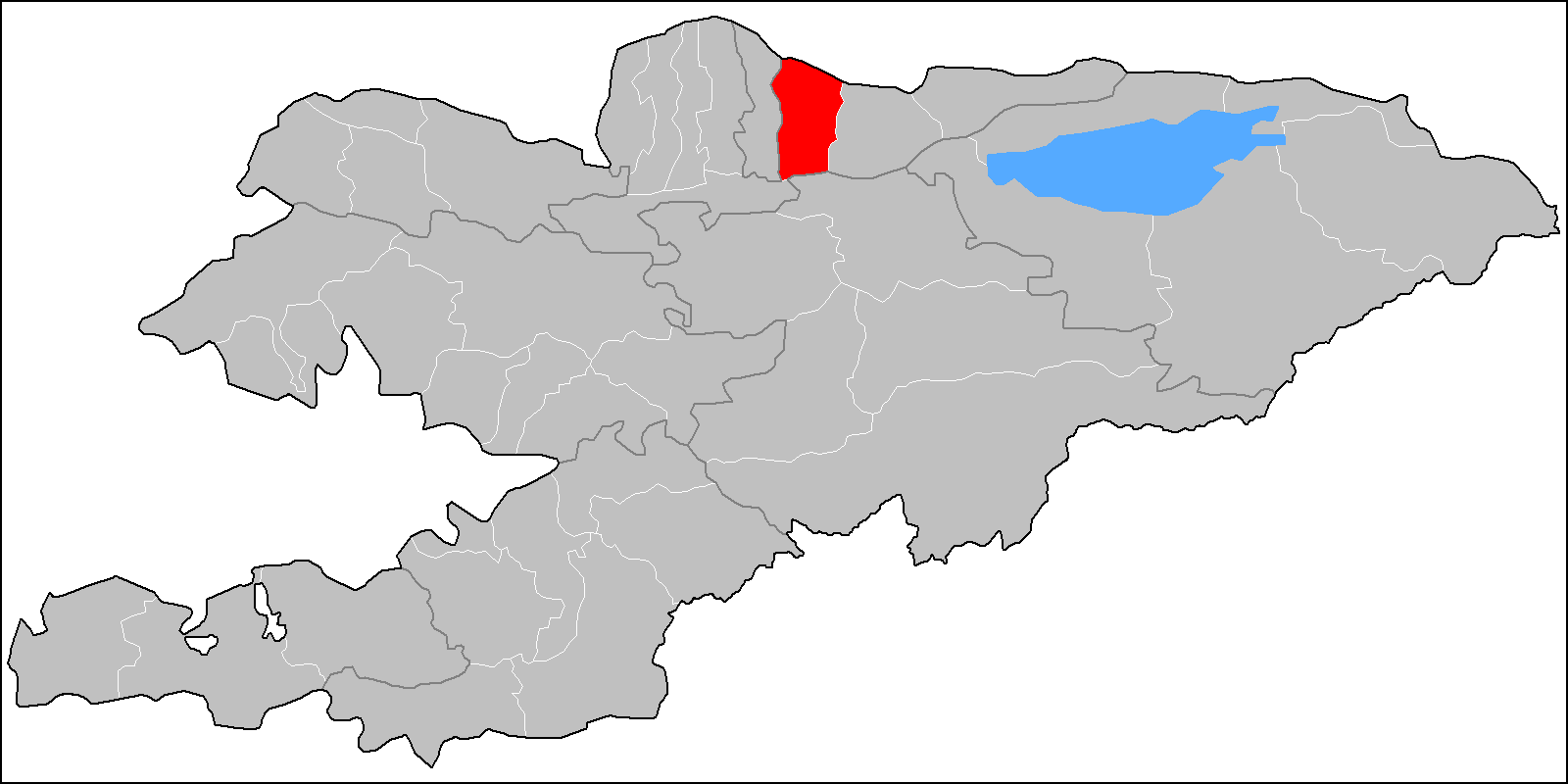 The location of the raion (district) of Ysyk-Ata in Kyrgyzstan. Based on Image:Kyrgyzstan raions.png